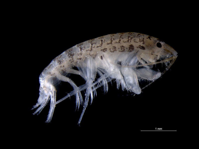 A benthic amphipod from the Belgian part of the North Sea. Length = 5 mm Focus stacking of 4 pictures.